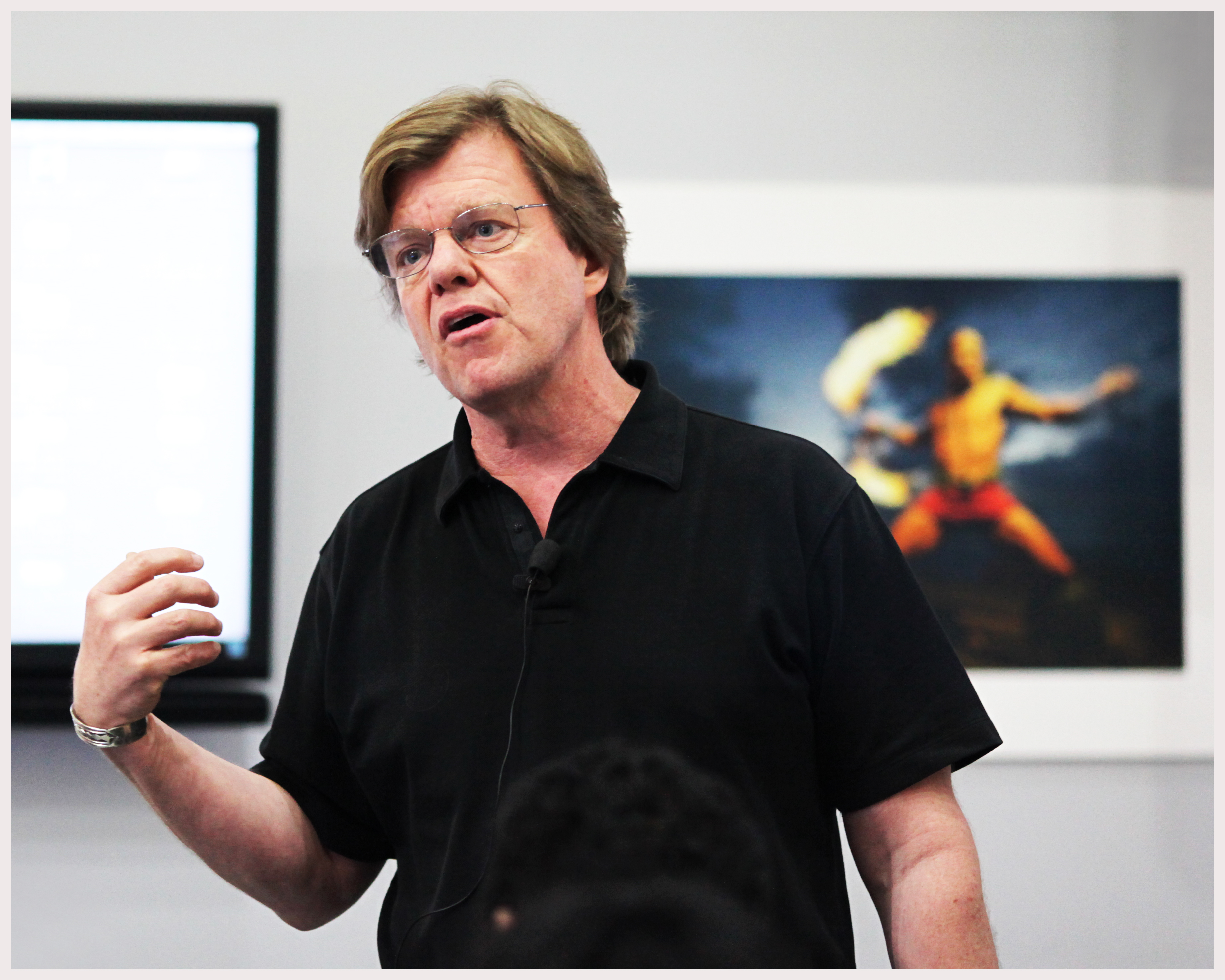 Joe McNally presenting at Nikon Centre, Kuala Lumpur